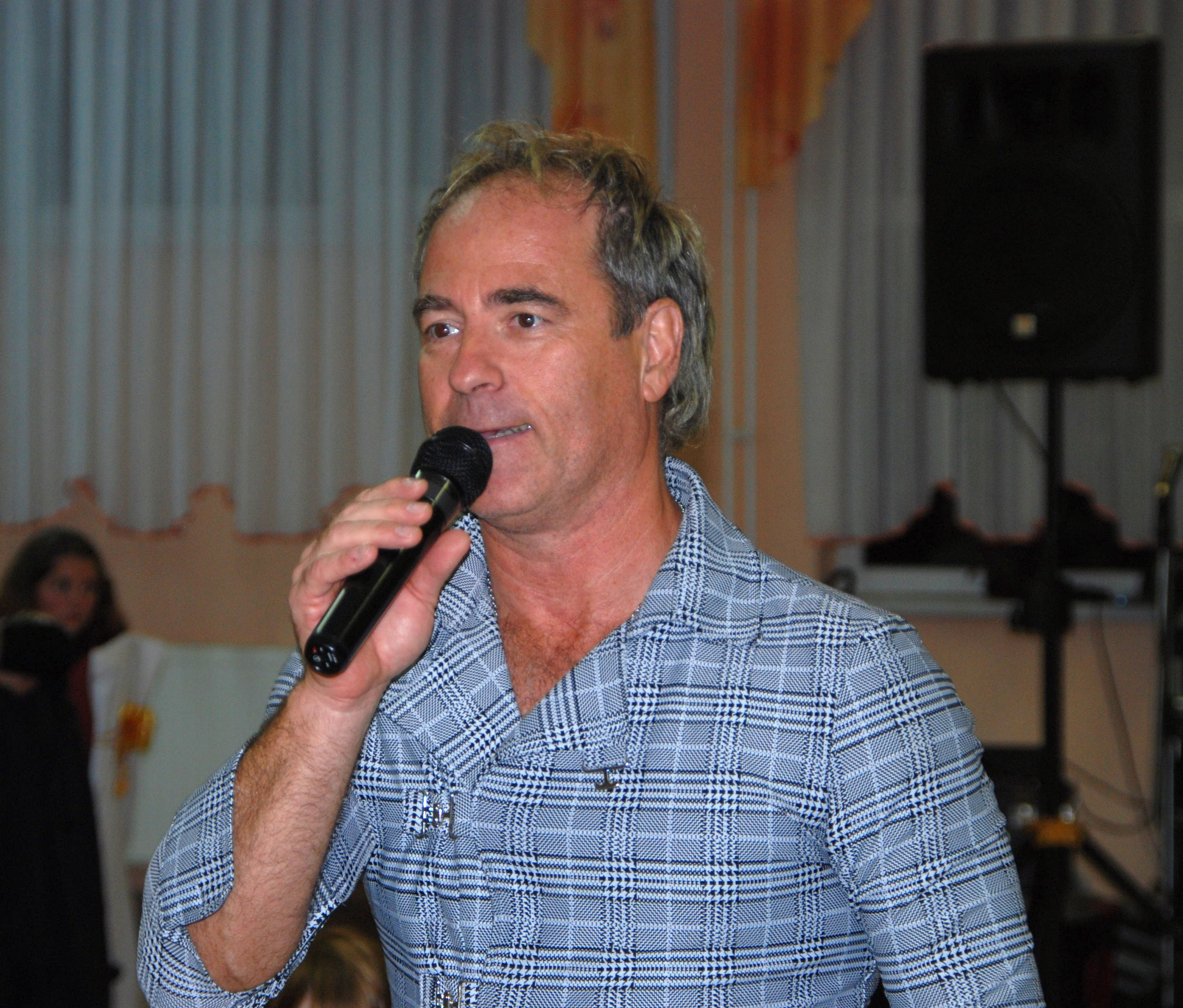 Vili Resnik, a Slovene rock singer and guitarist. The photo was taken in October 2013 at a private party in Krmelj (Municipality of Sevnica).